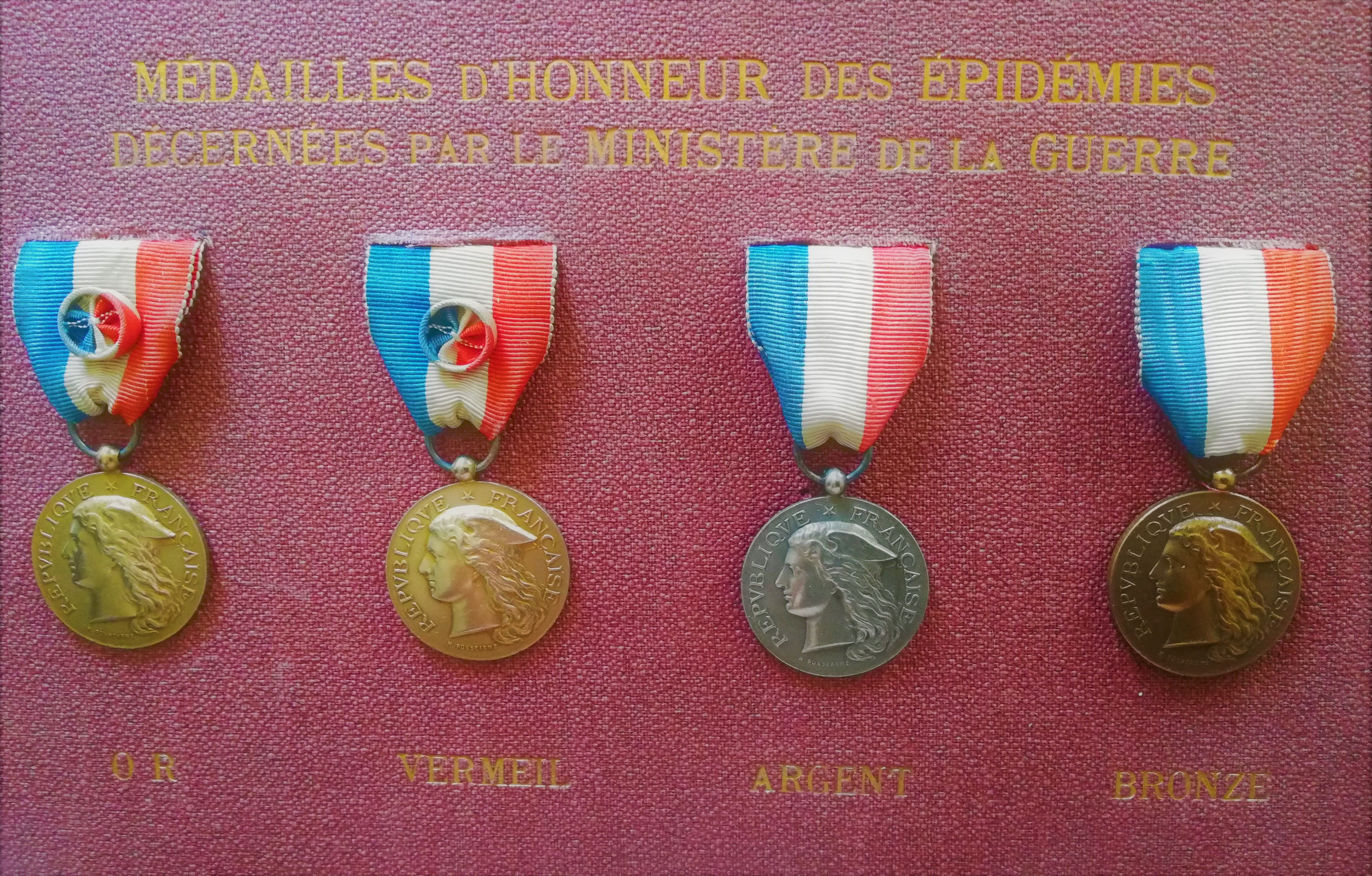 Display of 4 medals awarded to the military by the Ministry of War between 1892 and 1962, from right to left successively the models of bronze, silver, vermeil and gold.